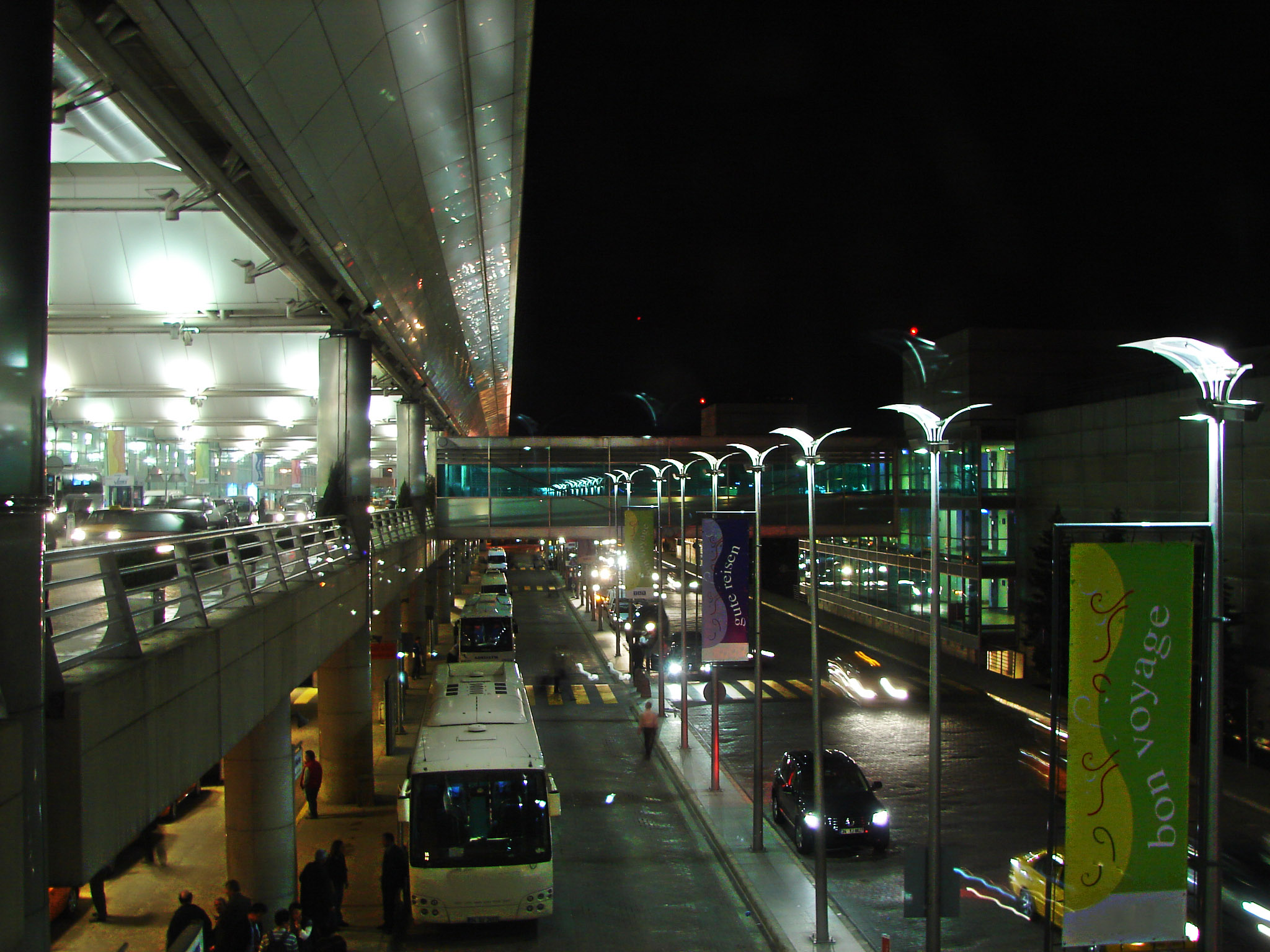 Istanbul Atatürk Airport